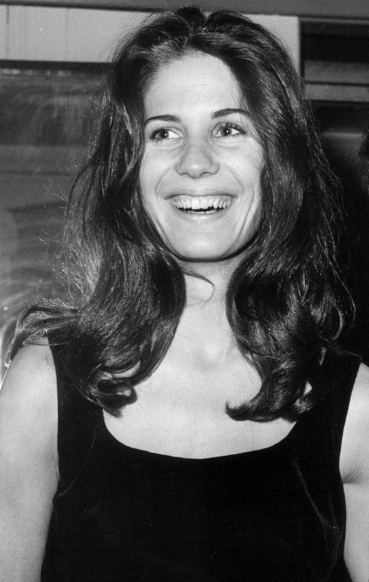 UPI press photo of Dustin Hoffman with his girlfriend Ann Byrne. No copyright notice. UPI did not file copyrights on its press photos.